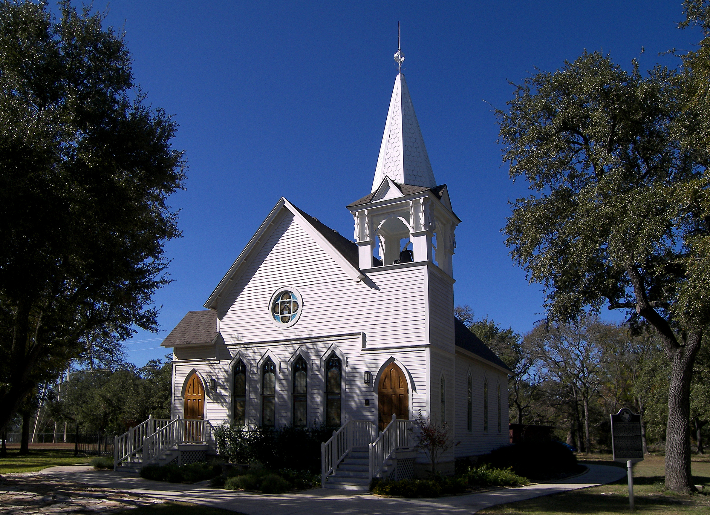 The Salado United Methodist Church located in Salado, Texas, United States. The Carpenter Gothic style church was built in 1890 and moved from its original location in 2005. The building was designated a Recorded Texas Historic Landmark in 1969 and listed on the National Register of Historic Places on August 22, 1984.